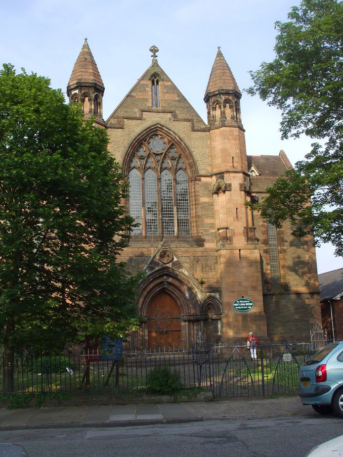 St Paul's church, Paget Street, Grangetown, Cardiff, built 1889-1902 and designed by Arts & Crafts architect John Coates Carter. West facade.